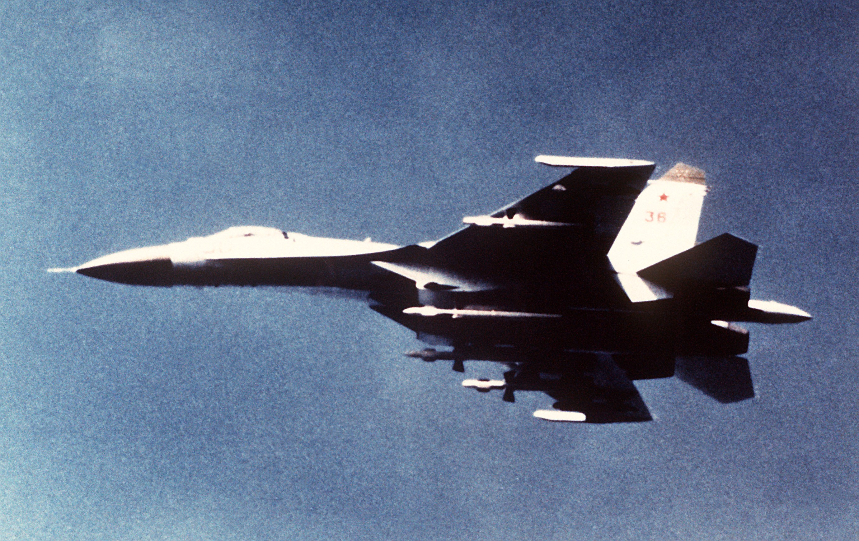 Su-27P tactical code 36 Red assigned to the 941st IAP (fighter wing) of the 10th PVO air army stationed on the Kola Peninsula.